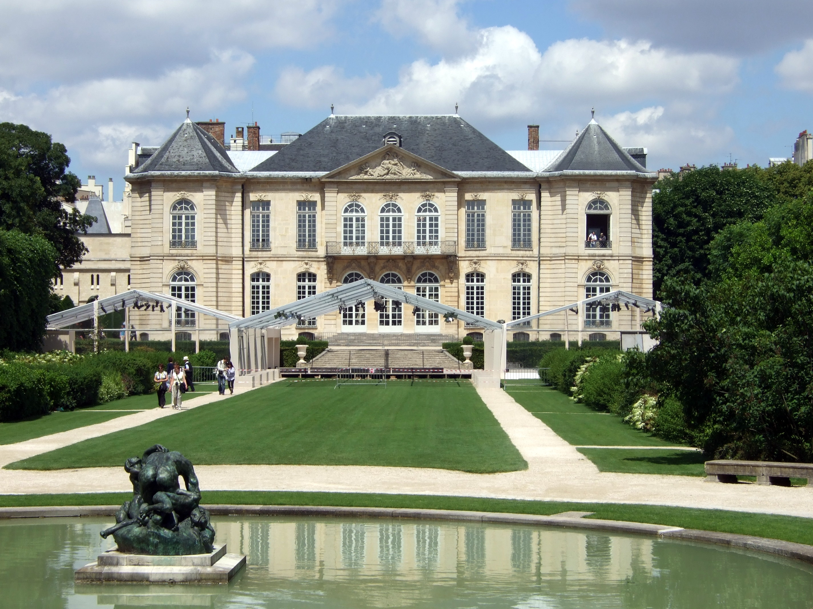 Garden of Musée Rodin in Paris, France